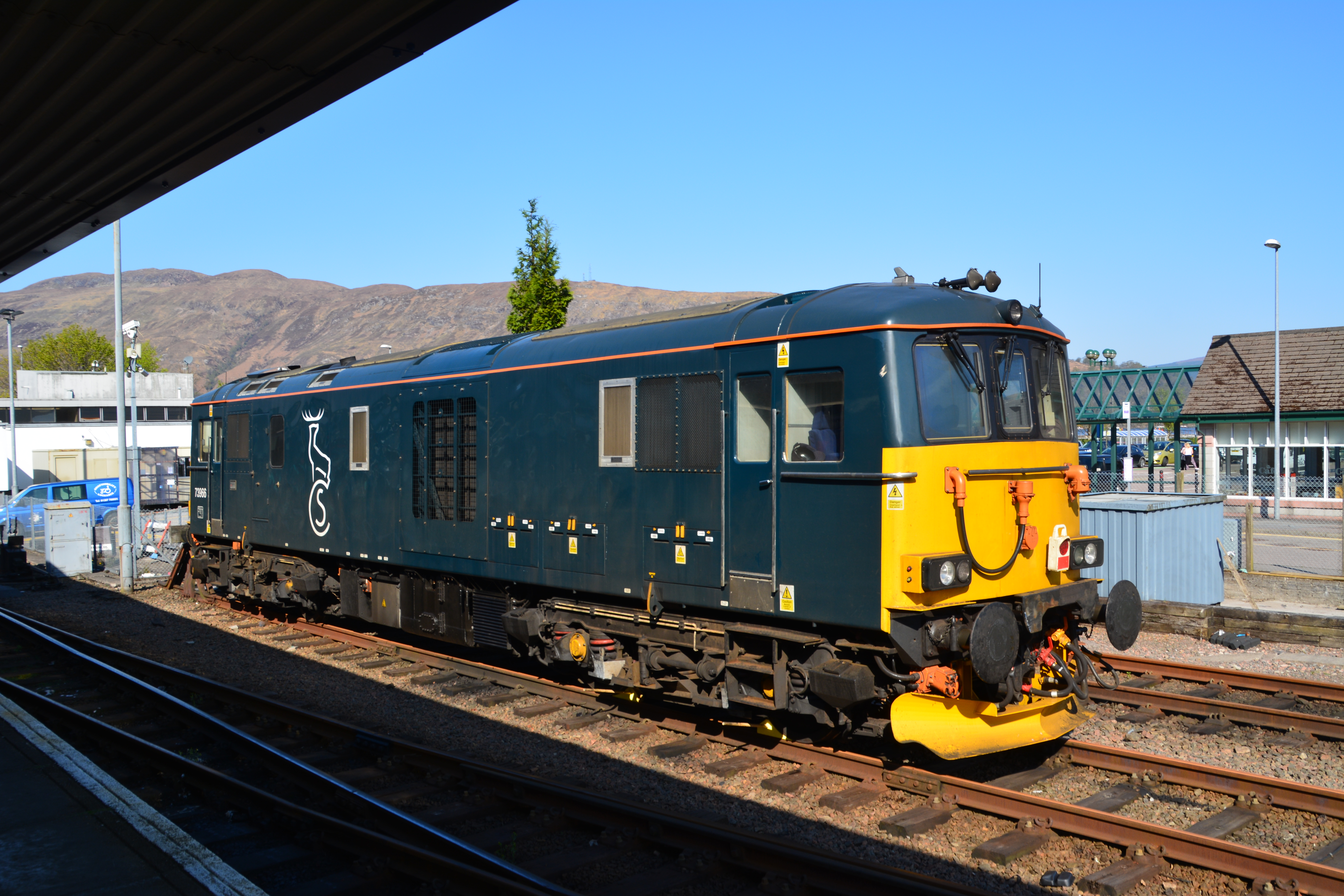 73966 purchased by GB Railfreight for use on the Caledonian Sleeper from Edinburgh to Fort William. In siding at Fort William.